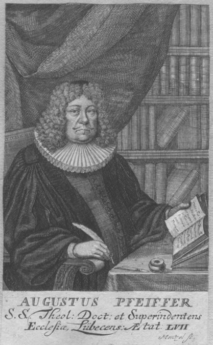 Portrait of August Pfeiffer, copper engraving 126x92 mm